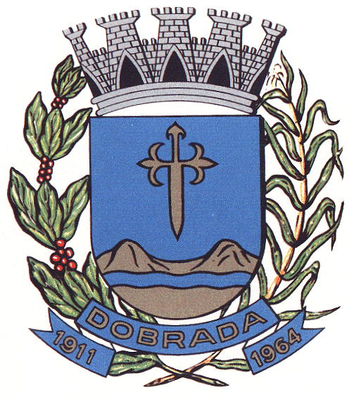 Bandeira de Dobrada - SP